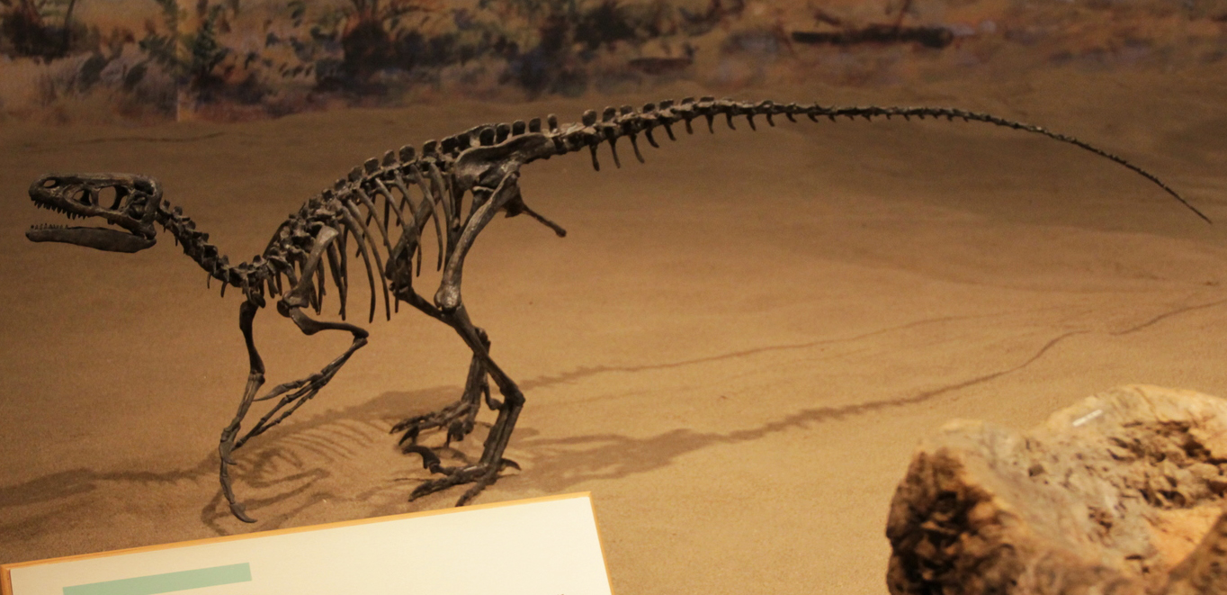 A photograph of the Ornitholestes mount at the Royal Tyrrell Museum.